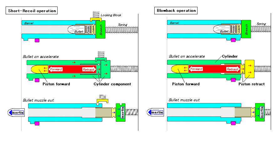 Simplified & comparison diagram of Short-recoil and Simple blowback operation.